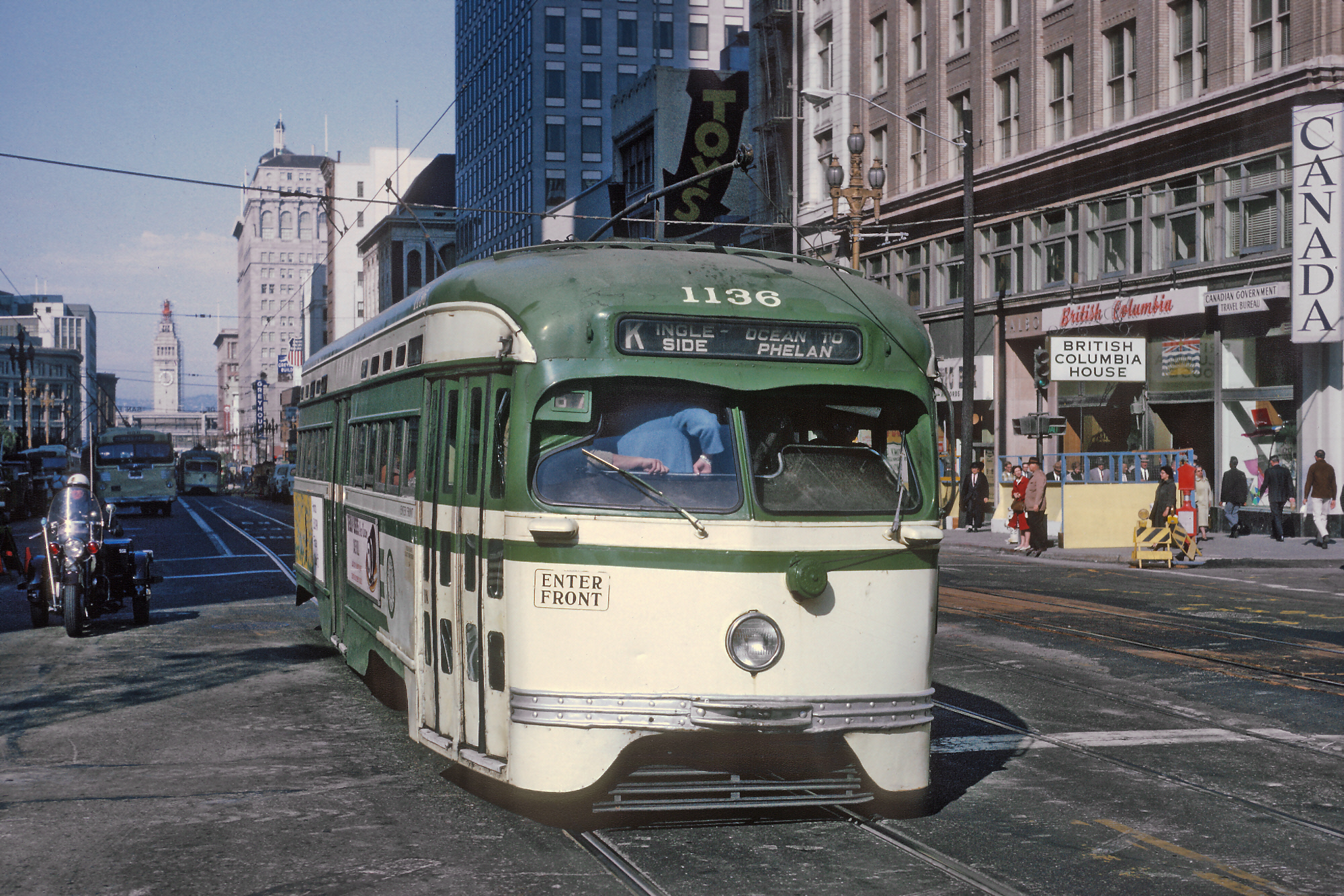 Roger Puta took these on August 24, 1967 standing on the Market St. Streetcar Island near 2nd St. in San Francisco, CA. 1136 as a K INGLESIDE OCEAN TO PHELAN car. This file comes from the Roger Puta collection, which passed to Mel Finzer. They were scanned and posted by Marty Bernard, are in the Public Domain. Attribution to "Roger Puta" is not required for a PD image, but should be done as a matter of courtesy to a major Commons contributor. Mel Finzer, the heirs of this work's copyright holder (usually the creator) have released it into the public domain. This applies worldwide. In some countries this may not be legally possible; if so: The heirs of the creator grant anyone the right to use this work for any purpose, without any conditions, unless such conditions are required by law. See This work is free and may be used by anyone for any purpose. If you wish to use this content, you do not need to request permission as long as you follow any licensing requirements mentioned on this page.